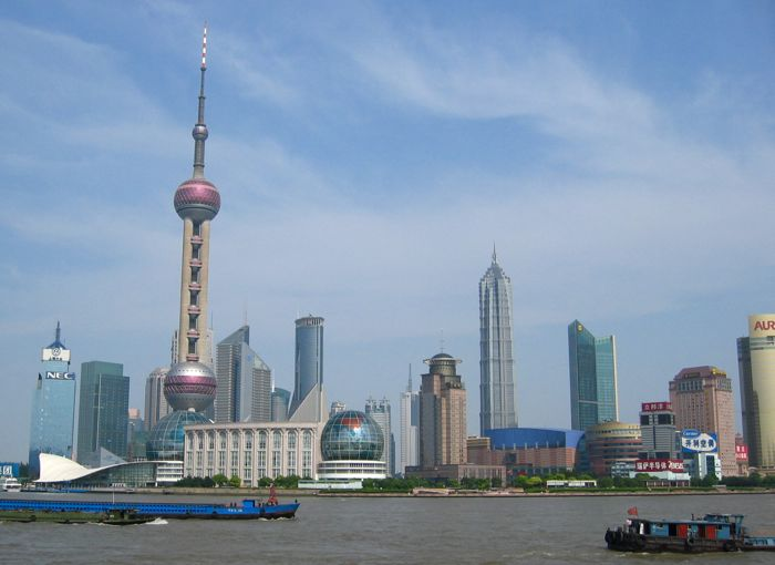 View of Pudong from the Bund